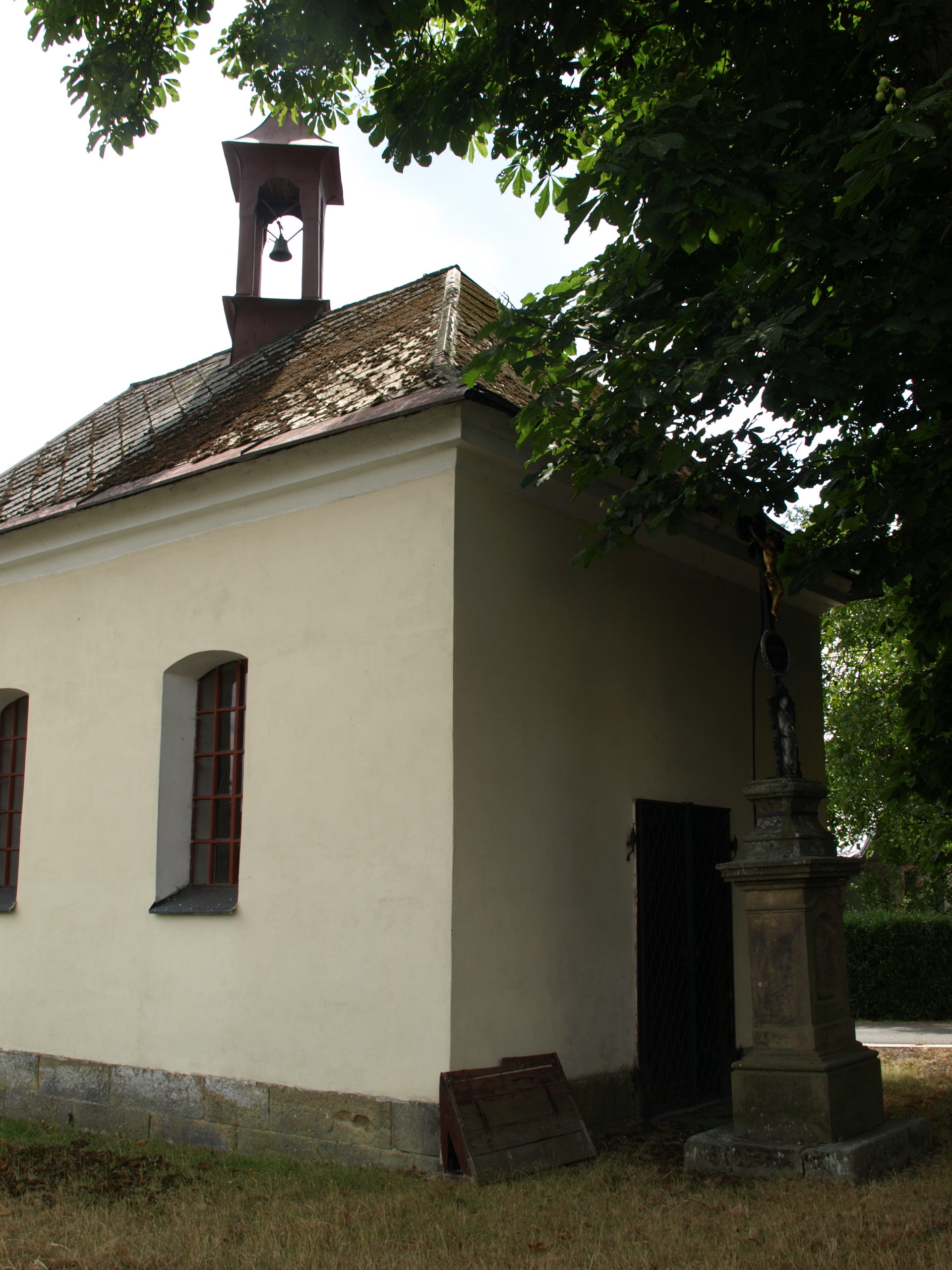 Chapel and wayside shrine in Mezilesí u Lanškrouna